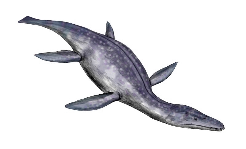 Atychodracon megacephalus (formerly Rhomaleosaurus), a pliosaur from the Early Jurassic of Europe, pencil drawing